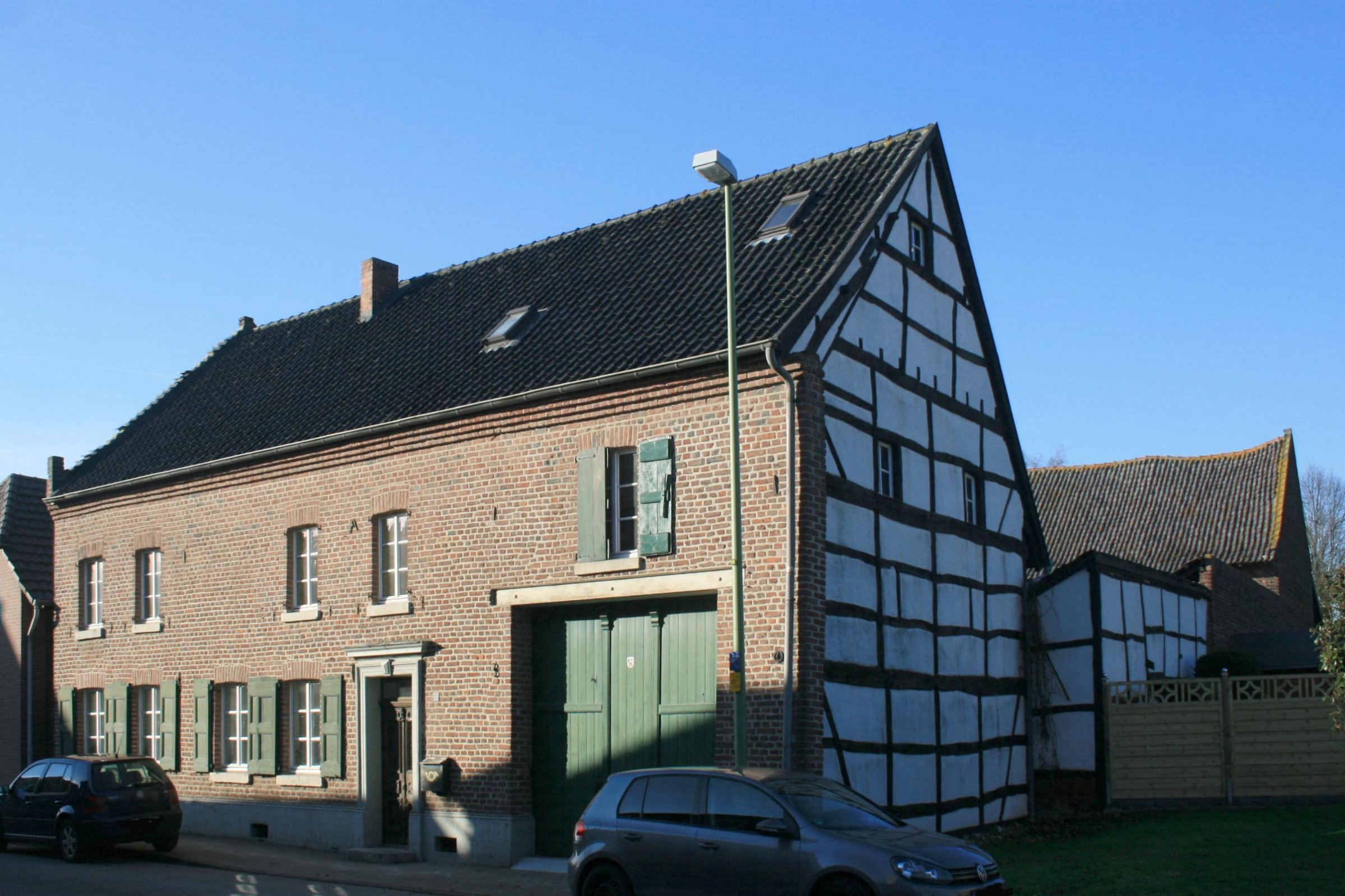 Cultural heritage monument No. 29 in Jülich